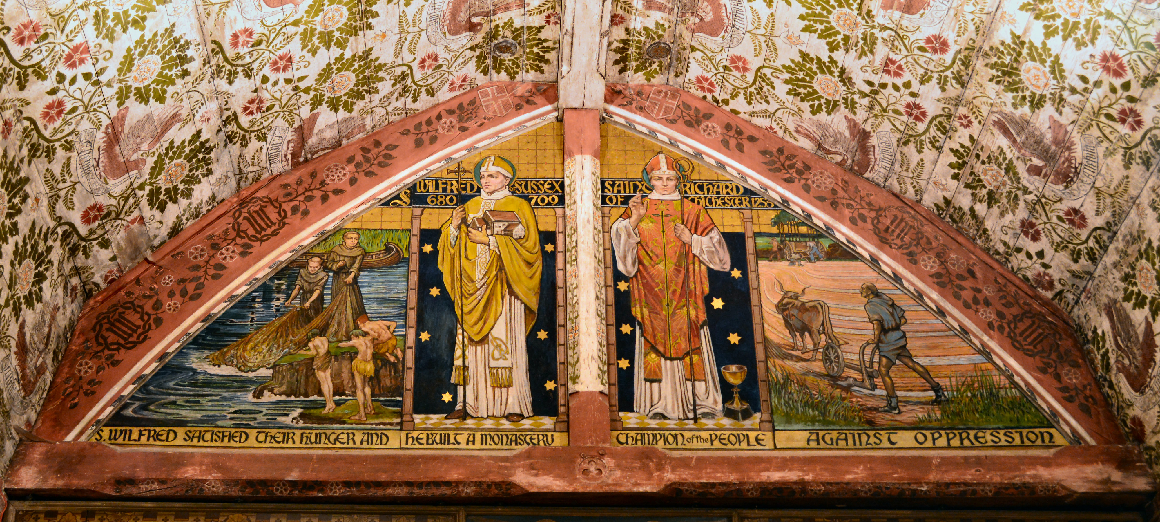 Ovingdean, St Wulfran's Church, Painting over altar depicting St Wilfred and St Richard. By Maude Emily Bishop (1890-1975), painted 1957-63